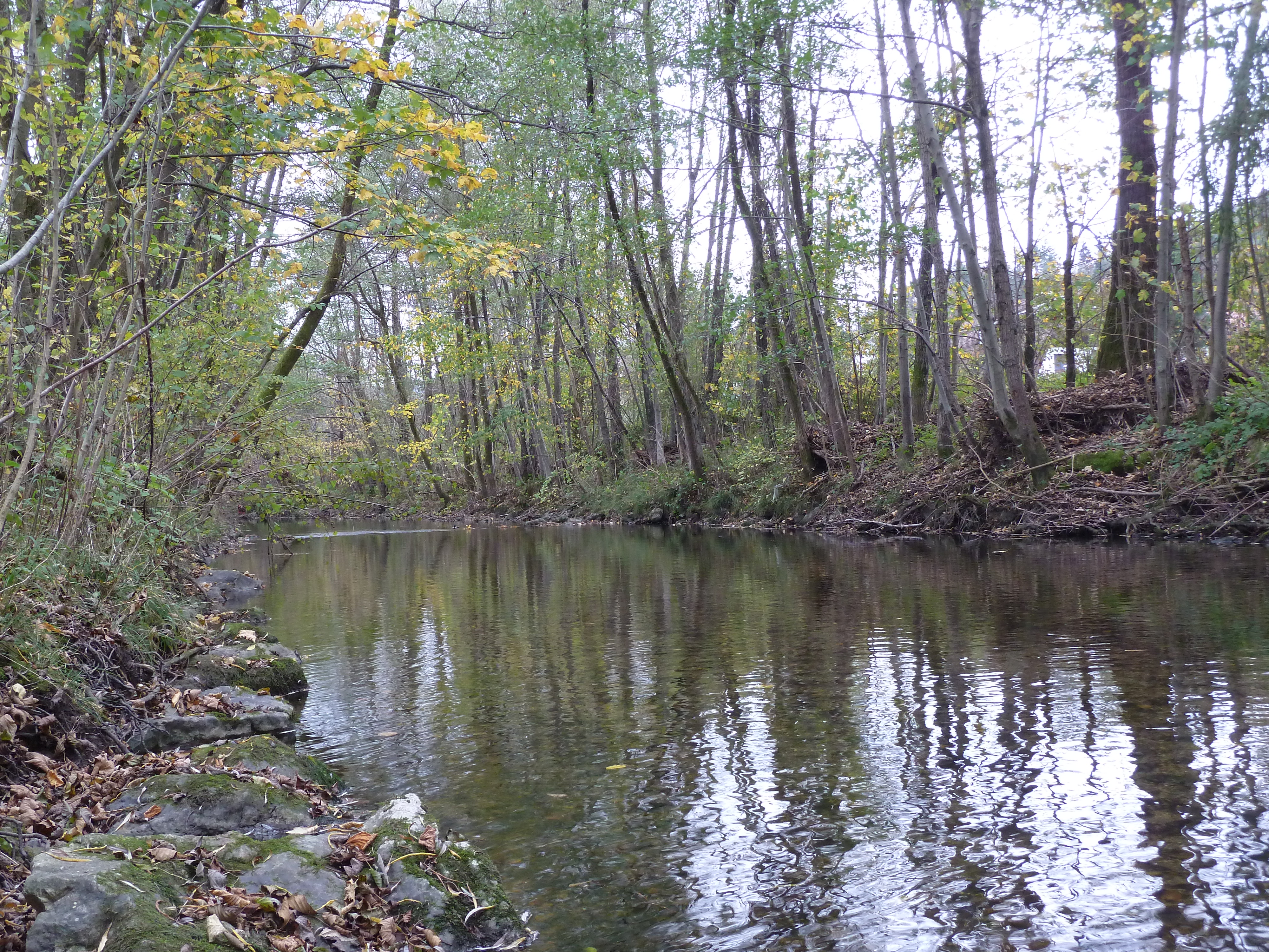 Gradaščica River below the village of Hruševo